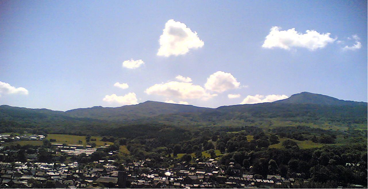 Dolgellau